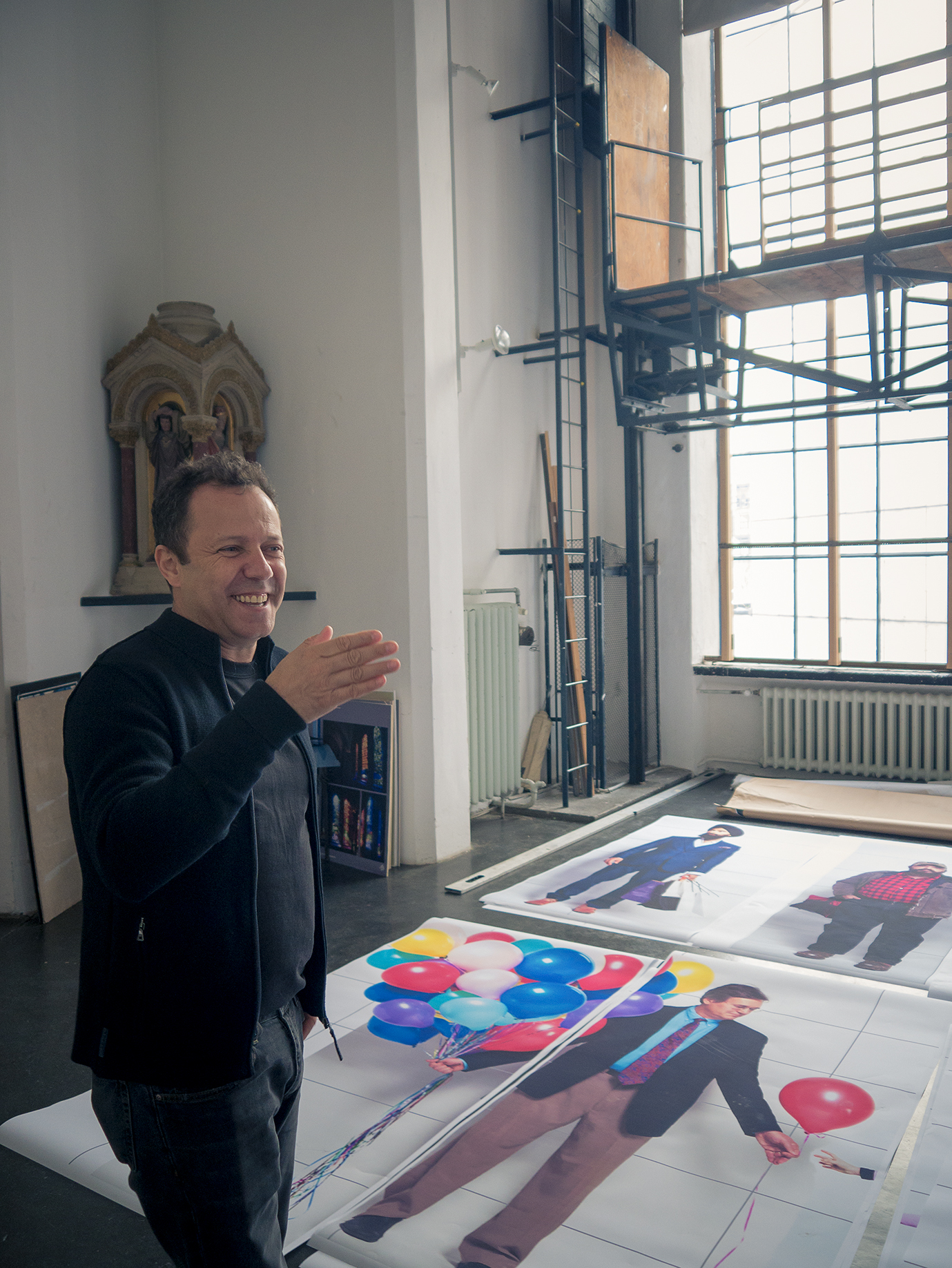 Glass mosaic and laminated glass, fabricated by Franz Mayer of Munich. For 72nd Street, Vik Muniz photographed more than three dozen “characters” who represent all of the unique and quirky kinds of people one encounters on the subway. These photographs have been re-created in mosaic and installed throughout the mezzanine and entrance areas, populating the station with colorful New Yorkers of all stripes. The main station entrance features an etched glass canopy at street level depicting a flock of birds, bringing art and nature to the busy street.With the generous expanse of the mezzanine concourse, the figures humanize the space and provide bursts of color and visual interest, providing an opportunity for playful discovery while moving through the station. Vik Muniz is a Brazilian-born artist based in New York City and Rio de Janeiro who uses unconventional materials and methods to create images culled from pop culture and art history. His work appears in international museum collections such as the Museum of Modern Art, Metropolitan Museum of Art, the Guggenheim Museum, and the Whitney Museum. The Academy-award nominated documentary “Waste Land” featured his collaboration with catadores (waste-pickers) to create masterworks of art from recycled materials. Muniz was an artistic director of the 2016 Paralympic opening ceremony in Brazil. Photo: MTA Arts & Design: Rob Wilson